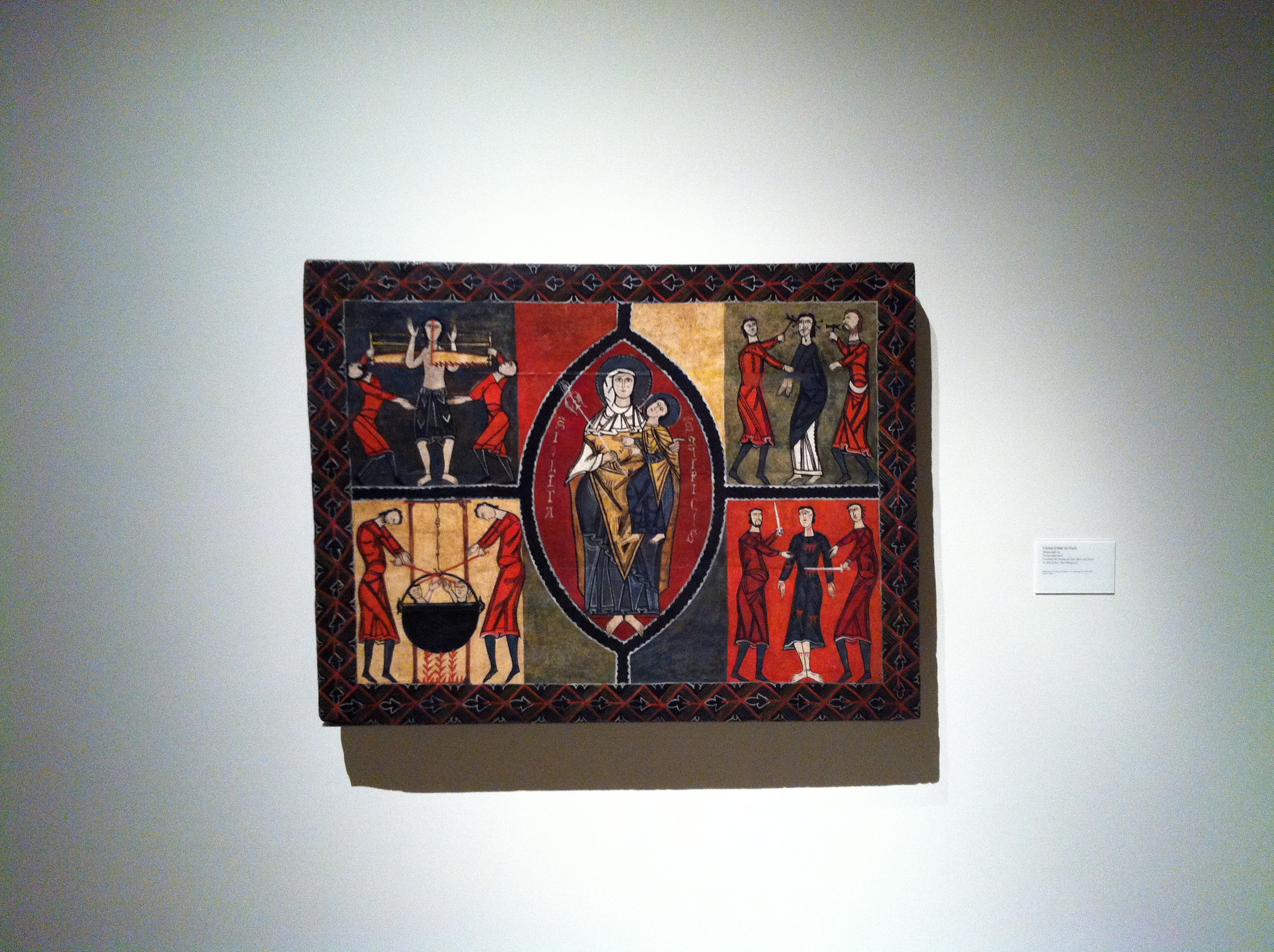 Reopening of the Romanesque collection of MNAC, Museu Nacional d'Art de Catalunya, in Barcelona